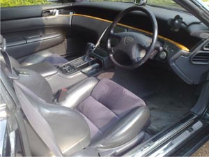 Eunos Cosmo,cockpit drivers side